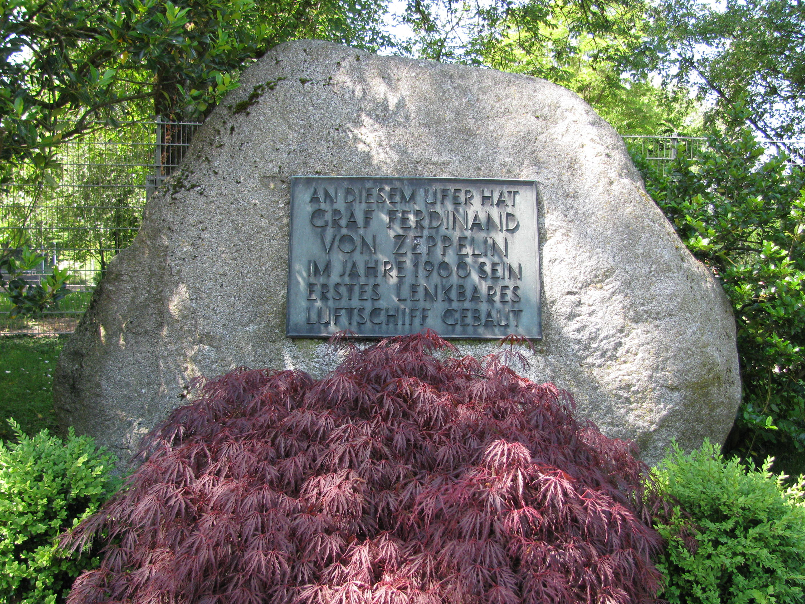 Germany - Baden-Württemberg - Bodenseekreis - Friedrichshafen - Manzell: memorial 'first airship by Graf Ferdinand von Zeppelin, 1900'